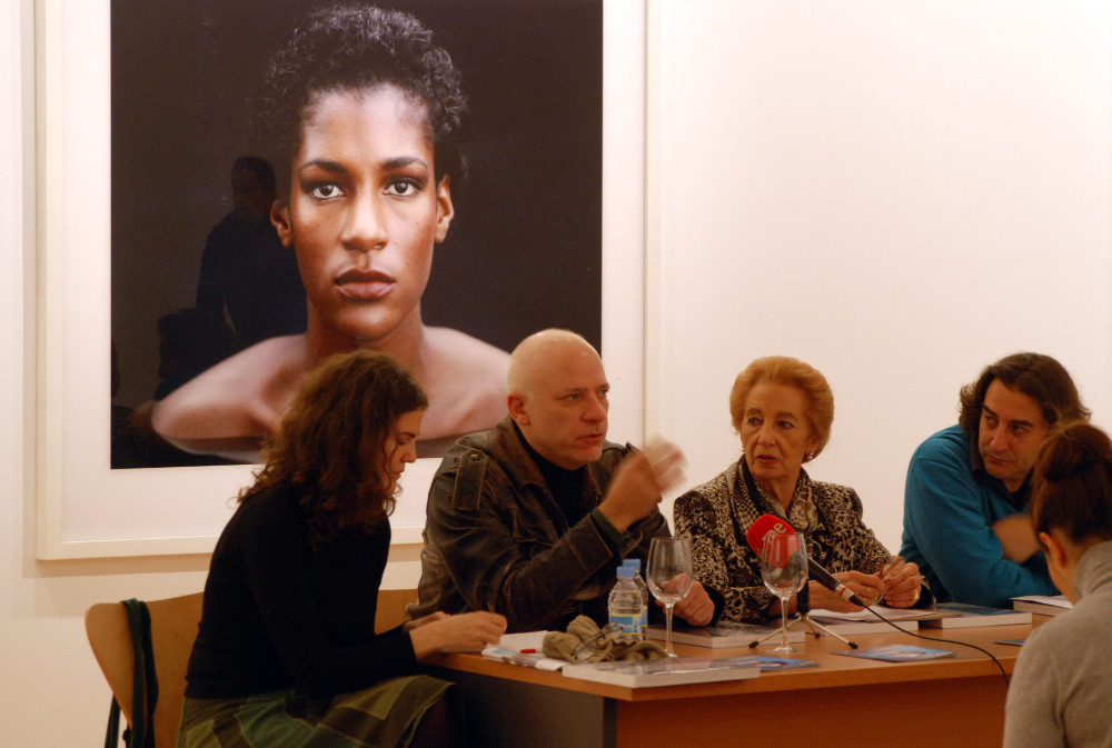 Roland Fischer (2nd from left) on a press conference in the museum DA2 in Salamanca, Spain